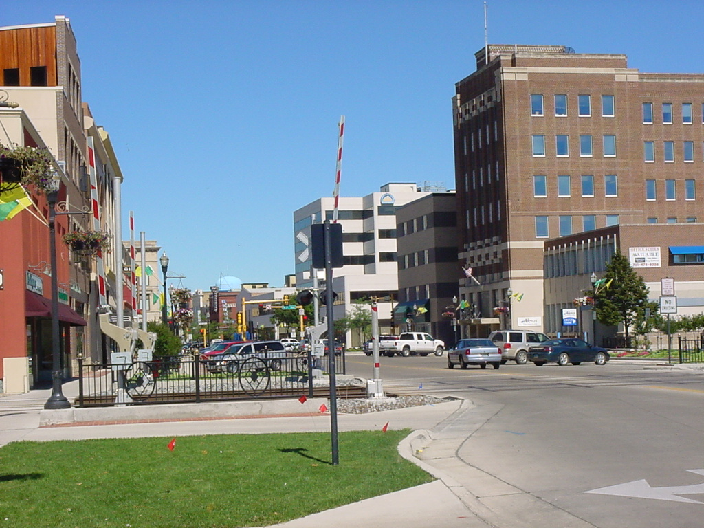 Broadway at Main in the heart of Fargo, North Dakota